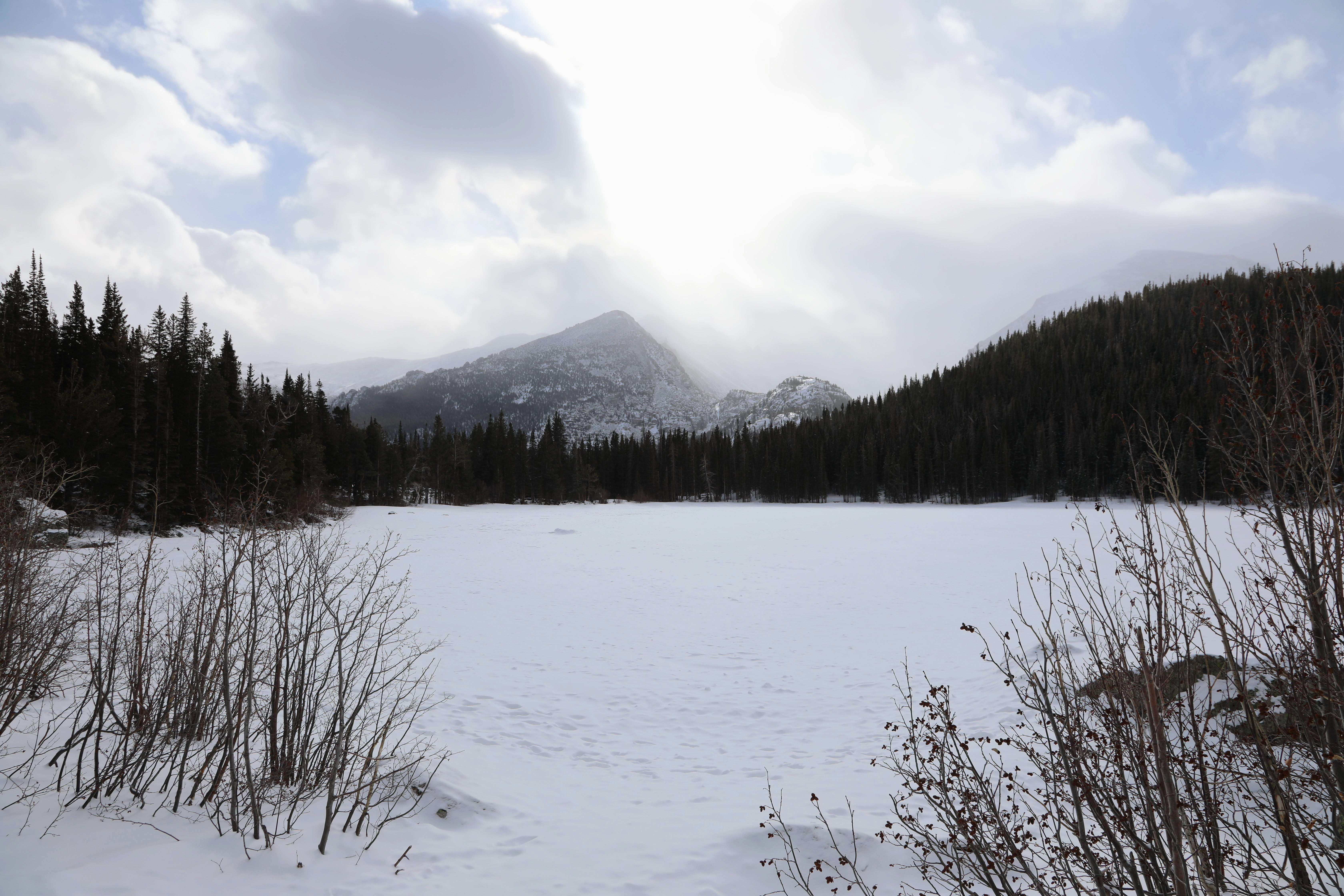 01102020 Took a drive up then walked around Bear lake in RMNP today, I have not been there for years since in the summer its so packed with people, but here in the winter you get it mostly alone and even though the water is frozen and covered in snow it is a beautiful place. I grew up in Estes and RMNP was a second home to me and I know most of its nooks and cranny's and it is another spot of home and I always feel wonderful when I am here. . At 10000 feet the winters are long but it is full of beauty and it was a great time to visit even if the thermometer was reading just 12 above 0 there was no wind and the walk was nice. My dad and I would drive up here many a winter night and hardly ever see a soul except for a few animals and the game of porcupine tag ( lol thats a silly story that I wont go into.)